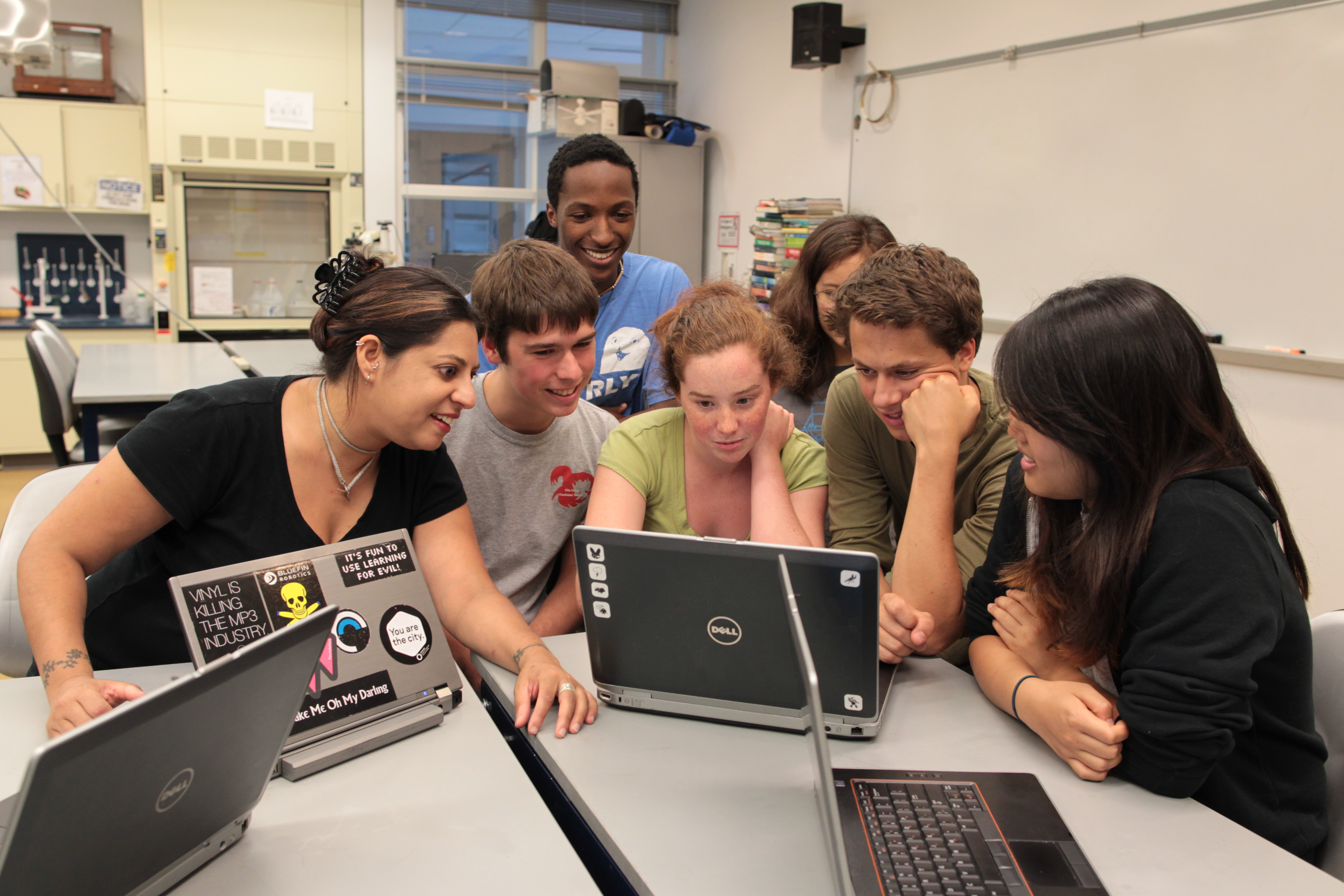 Olin students working with professor Debbie Chachra.